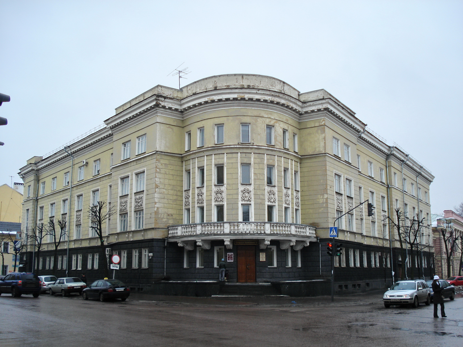 Yaroslavl Youth Hospital